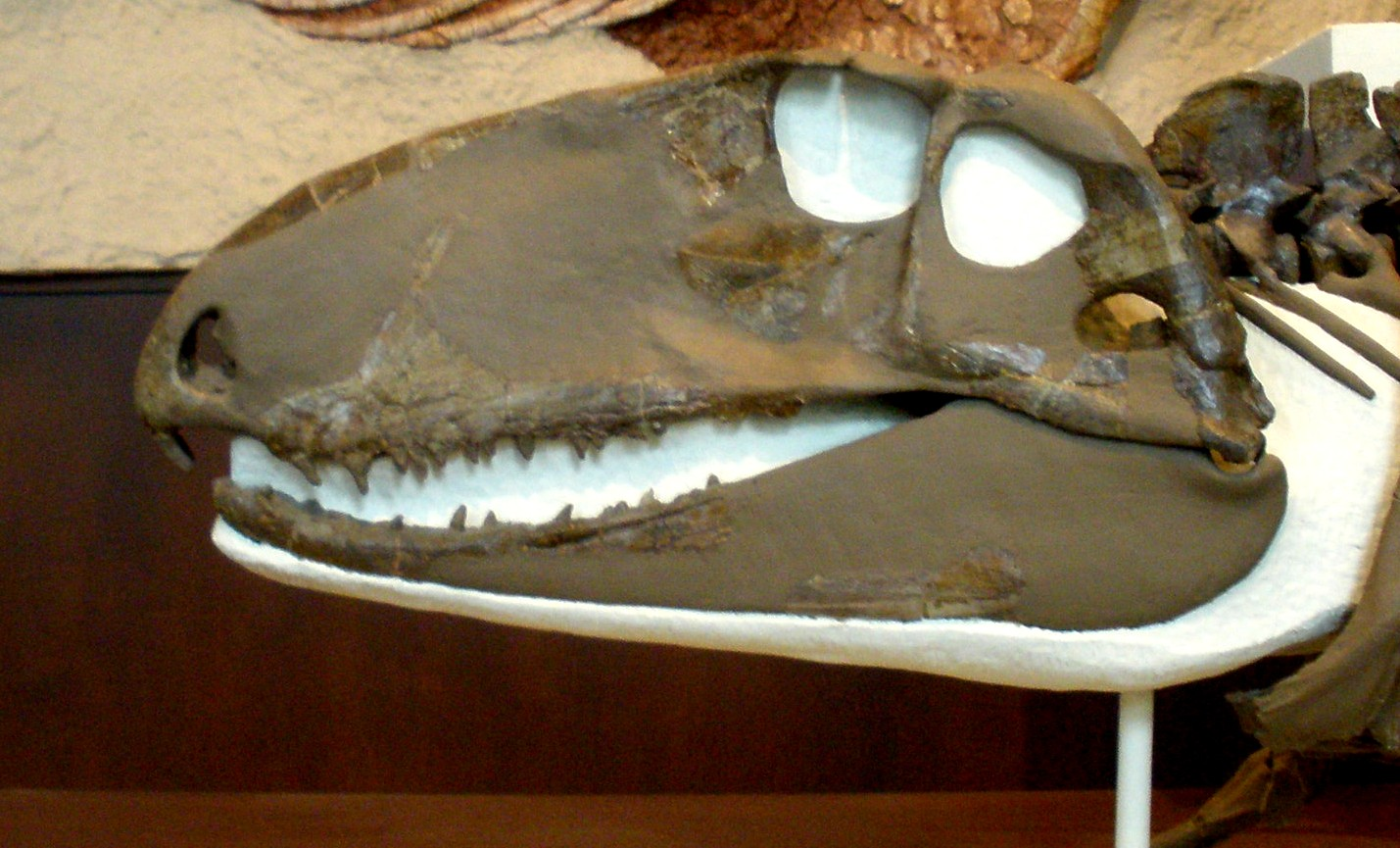 Skeleton of Ophiacodon retroversus, a fossil pelycosaur DateApril 2008Sourcetook the foto on the "American Museum of Natural History" in New YorkAuthorGhedoghedoPermission (Reusing this file)